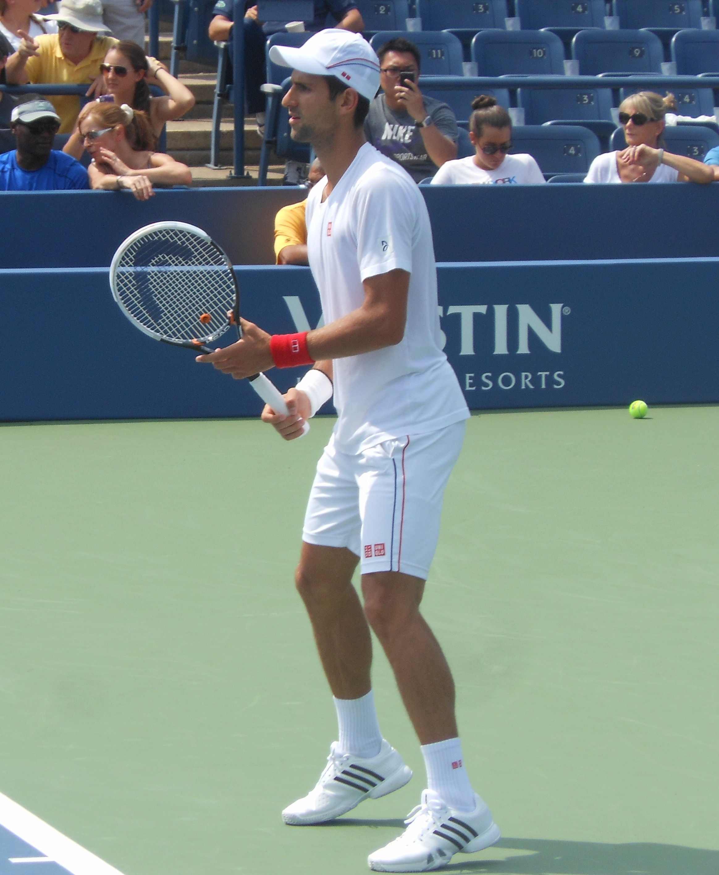 Novak Djokovic at the 2012 US Open